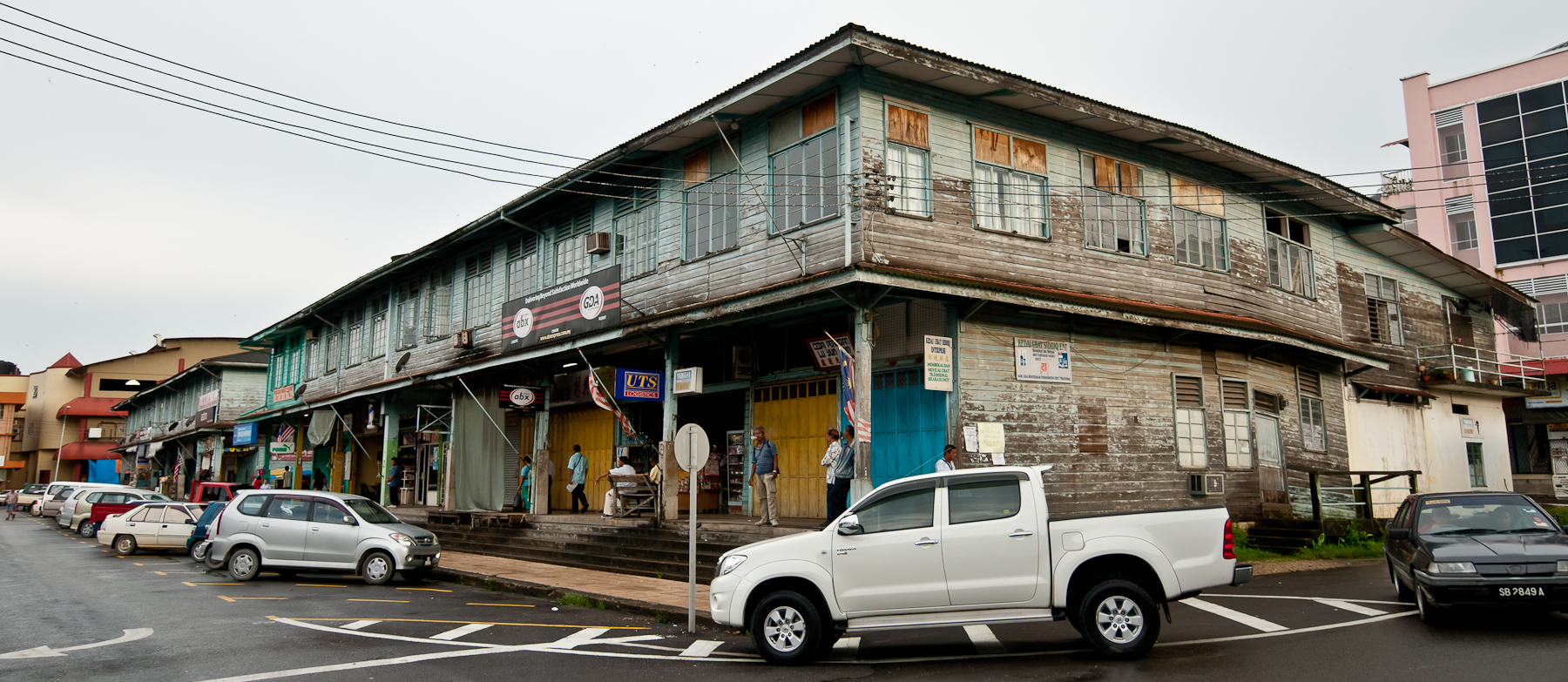 Beaufort (Sabah): Old Stores near Railway Station